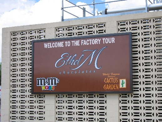 Front of the Ethel M Factory in Henderson, NV. Photo taken by me in August of 2005.